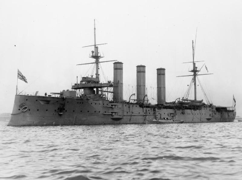 British armoured cruiser HMS BEDFORD.